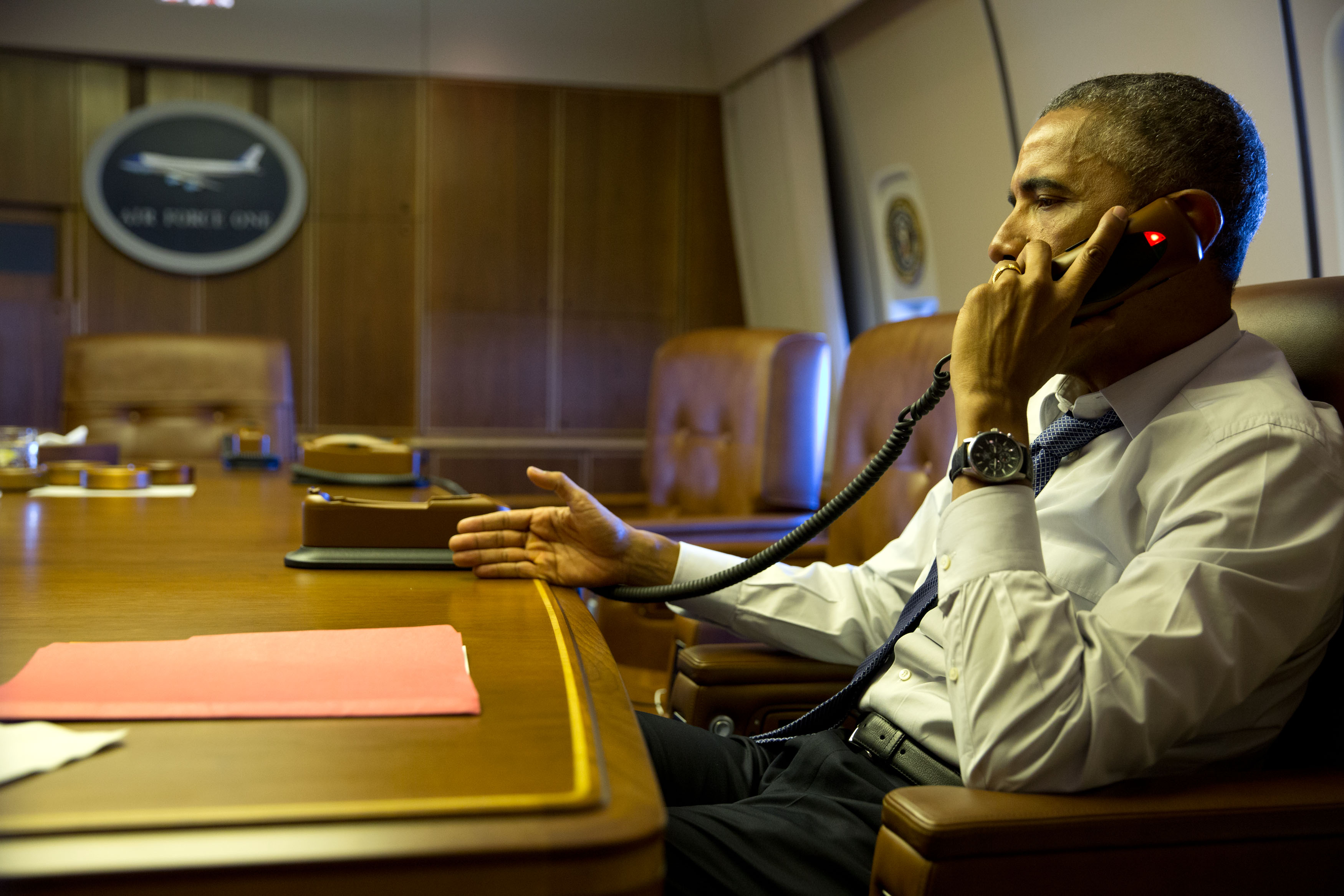 American President Barack Obama talks on the phone with French President François Hollande from aboard Air Force One, Jan. 7, 2015, after the Charlie Hebdo shooting.